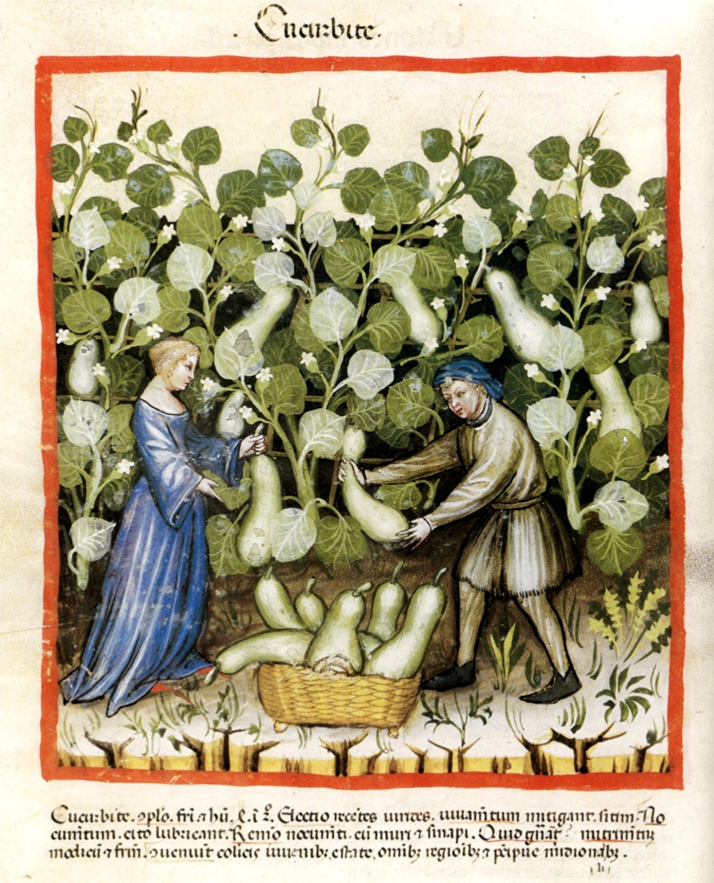 Squash (Cucurbite) Nature: Cold and humid in the second degree. Optimum: Those that are fresh and green. Usefulness: They quench thirst. Dangers: They constitute a swift laxative. Neutralization of the Dangers: With salted water and mustard. Effects: A moderate and cold nourishment. They are good for choleric temperaments, for the young, in Summer, in all regions, and above all in Southern areas. From the Tacuinum of Vienna